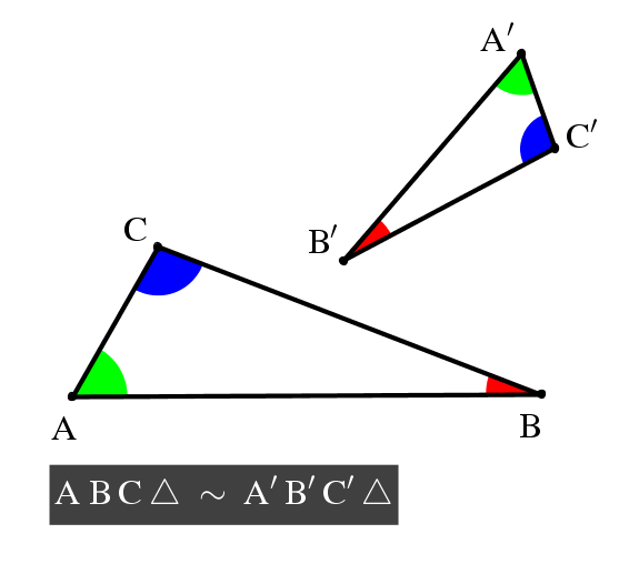 shows 2 similiar triangles